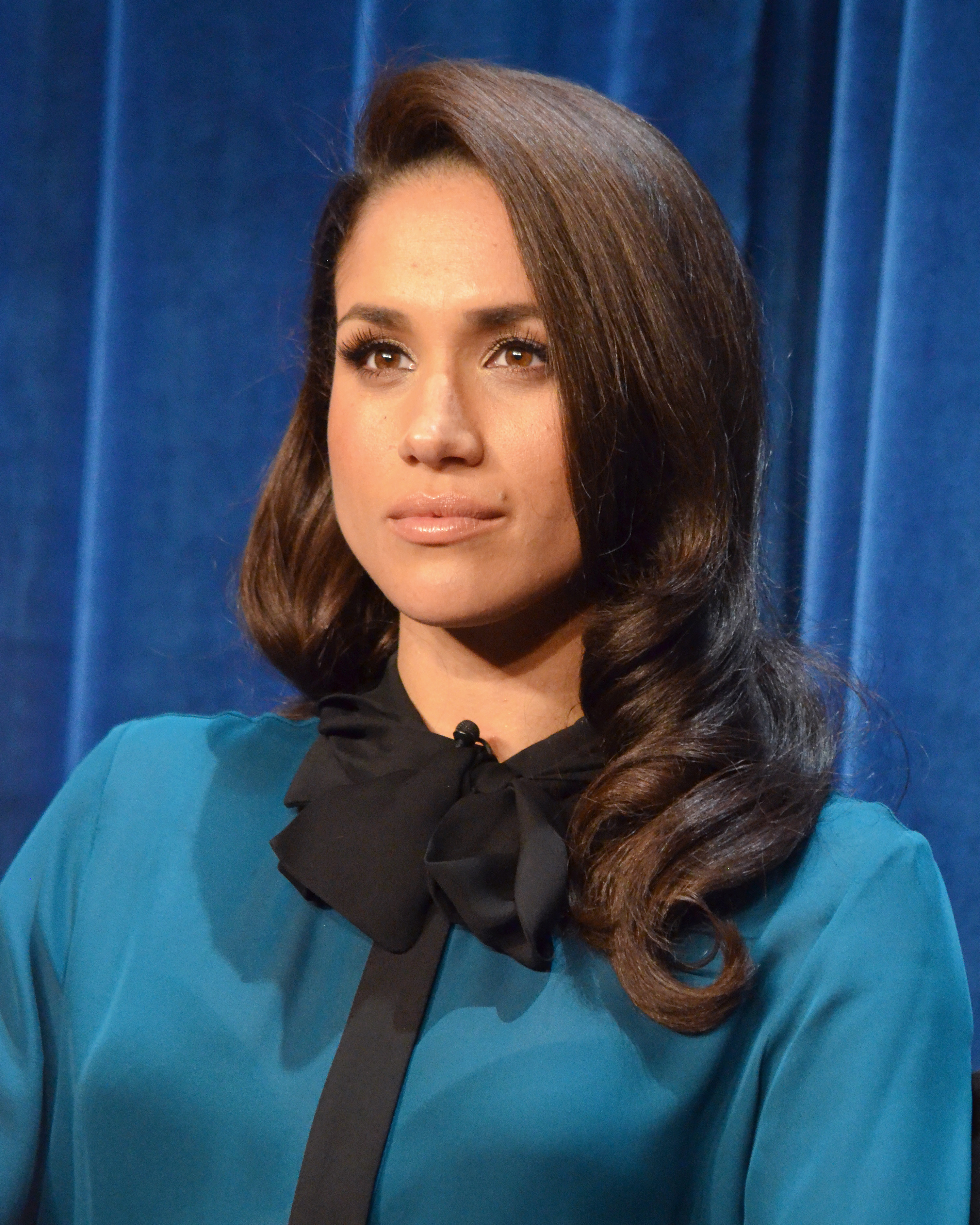 Meghan Markle at a promotional event for the TV show Suits